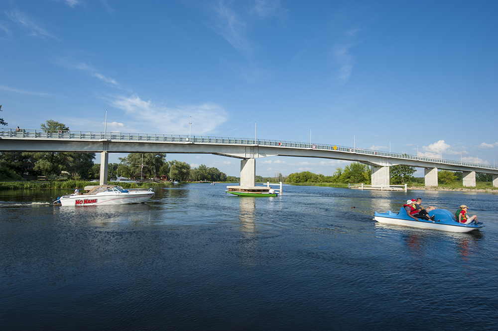 Pedestrian bridge over Narew river in Pultusk, Mazovia district, Central Poland. Construction finished in November 2015.